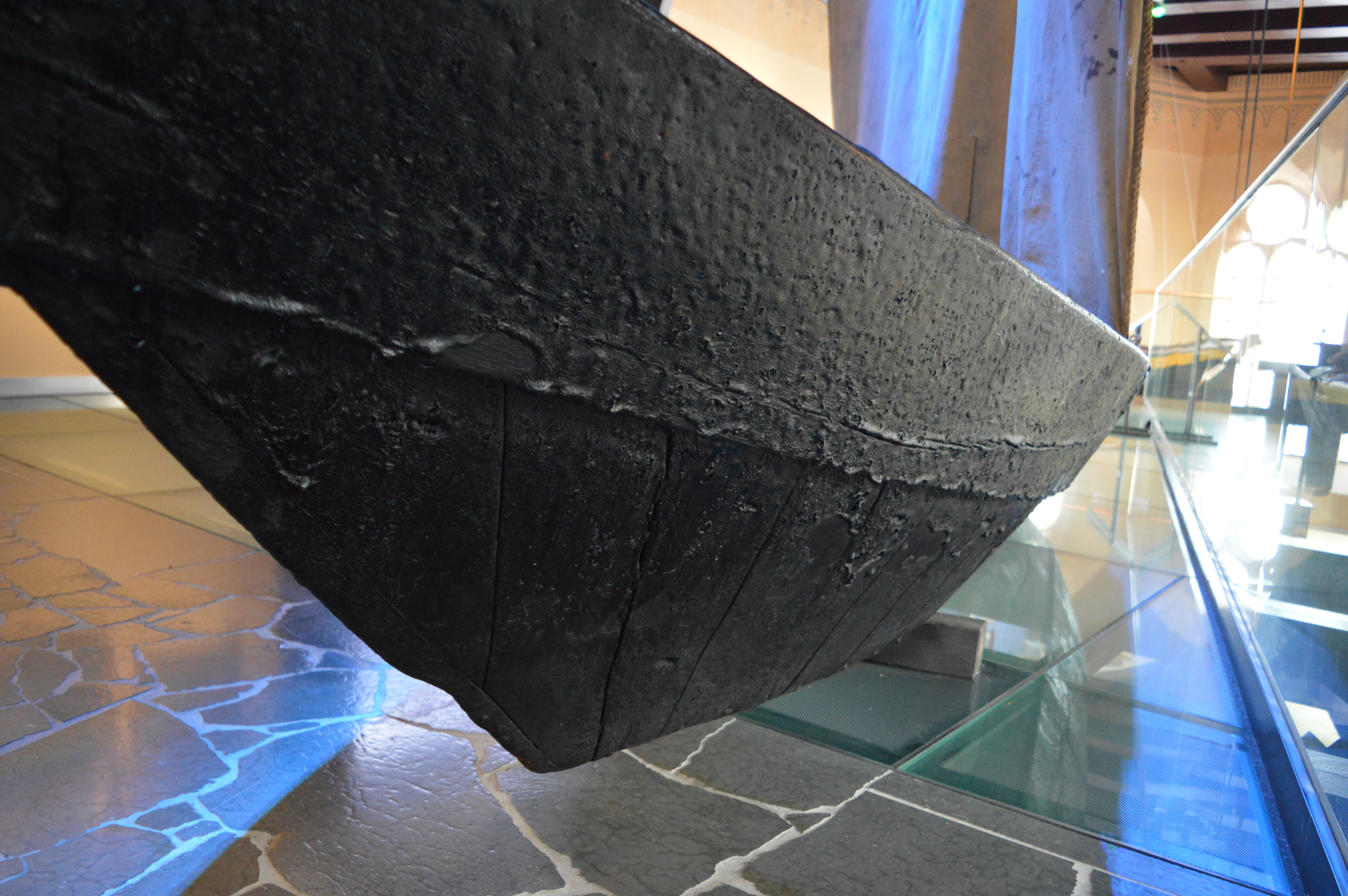 Czołn łebski - fishing boat formerly used in vicinity of Łebsko Lake (Poland). Exposition in Fisheries Museum in Hel (branch of National Maritime Museum in Gdańsk), Poland.